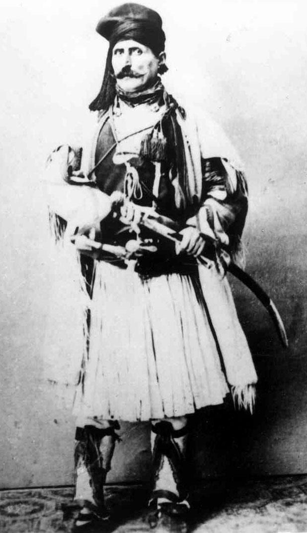 Ilyo Voivoda. Photo by Anastas Karastoyanov, Belgrad, 1867